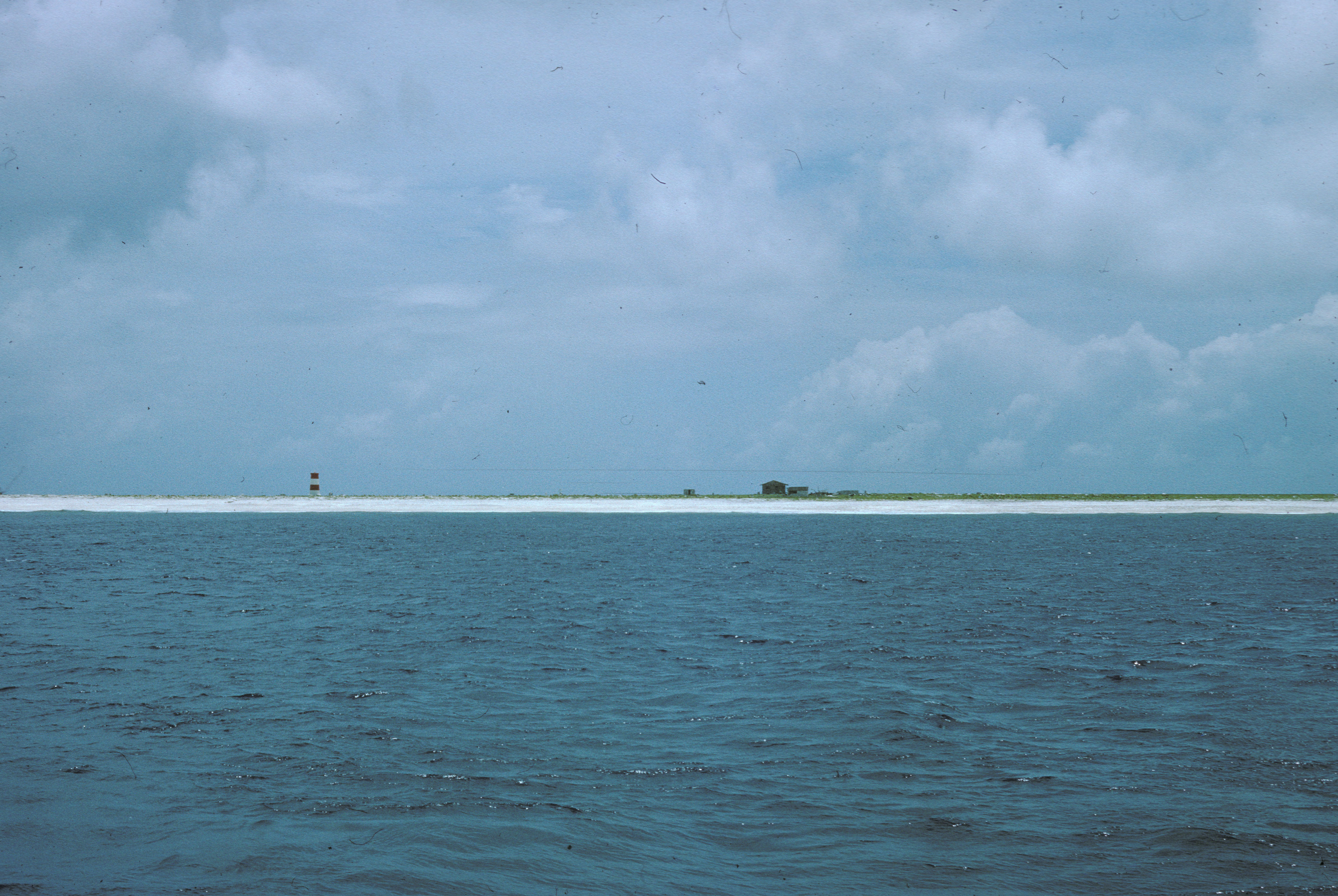 Enderbury Island in profile with lighthouse visible when approaching by ship. Phoenix Islands, Kiribati.